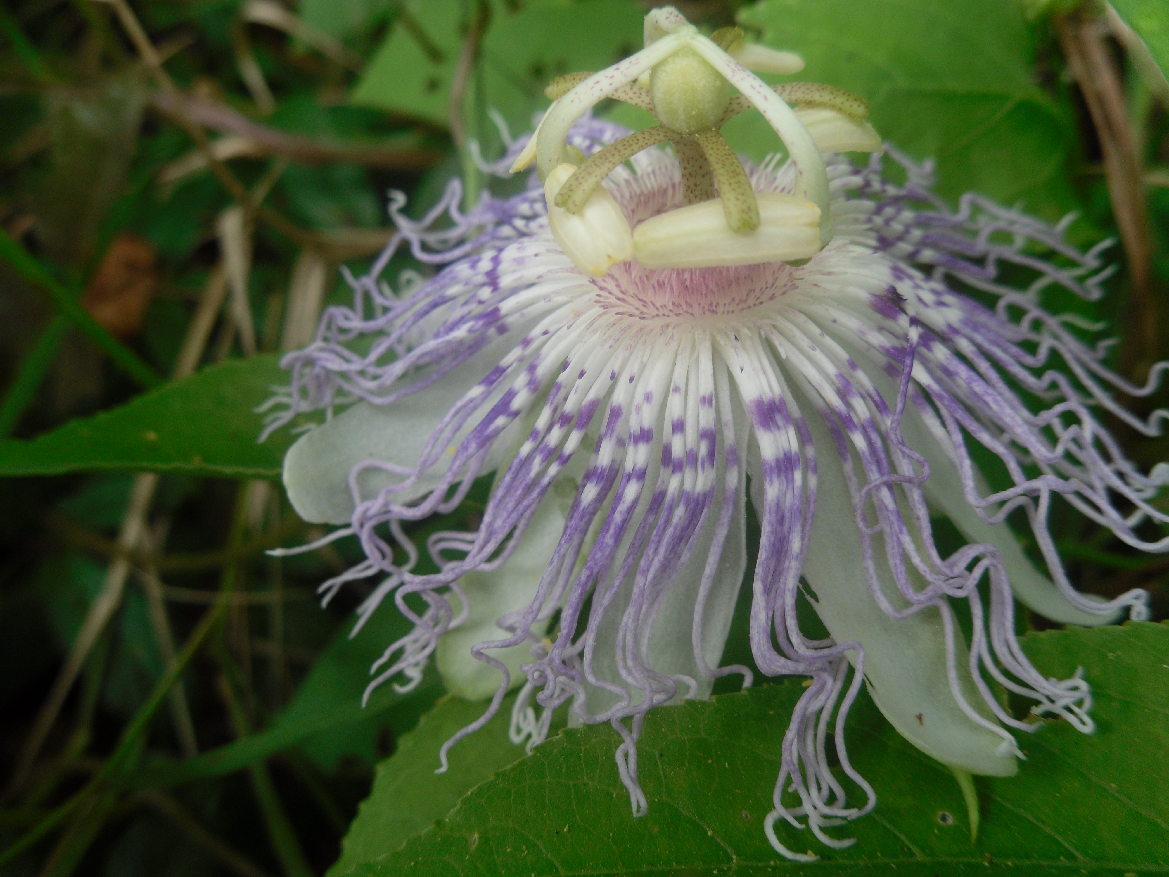 Another image of Passiflora incarnata.